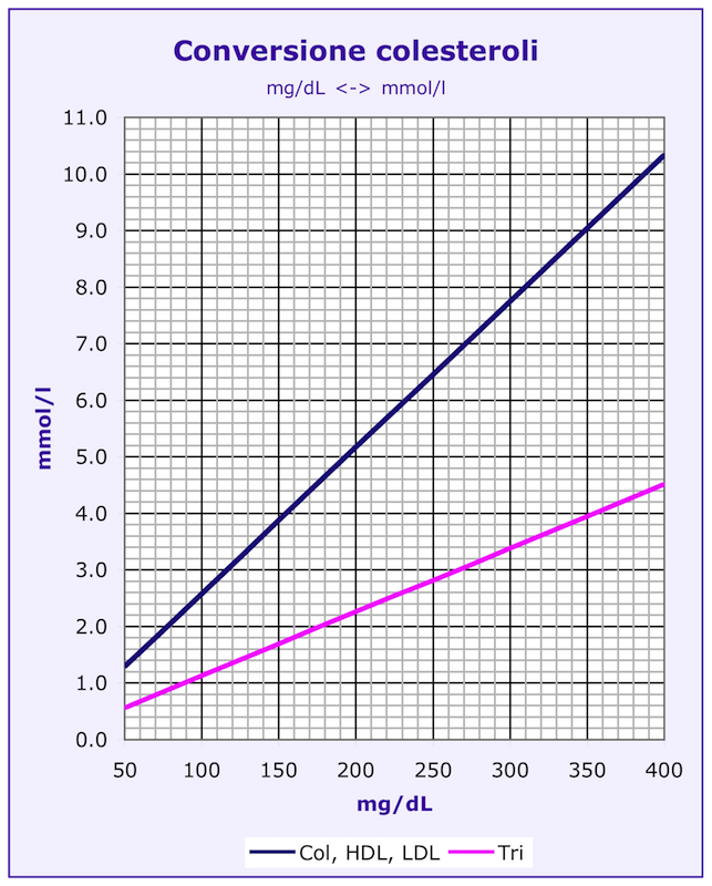 Conversion of cholesterol units mmol/l in mg/dl & viceversa